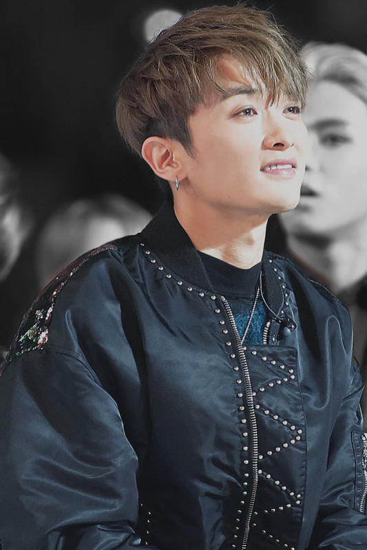 161119 Kim Jaeduck MelOn Music Awards